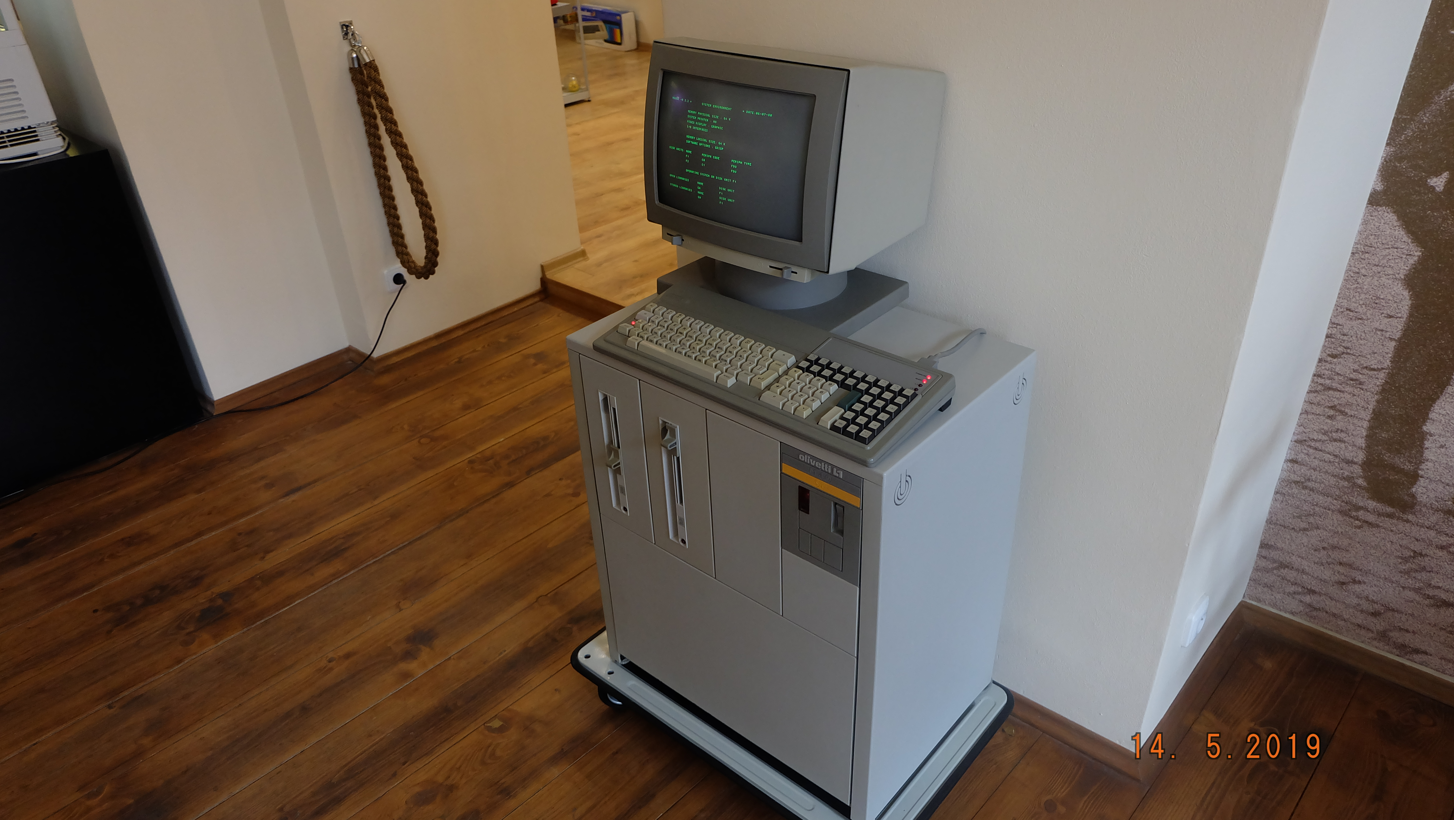 Fully functional and beautiful condition. Location, Retro Computer museum, Zatec, Czech Republic